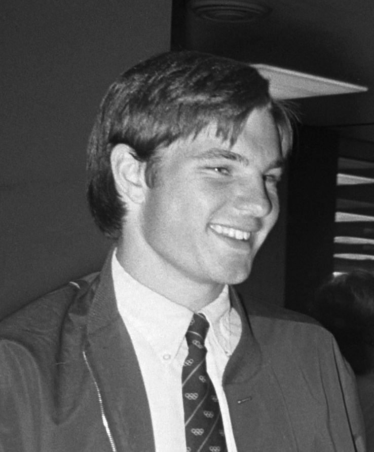 Dutch team returns from the 1972 Olympics